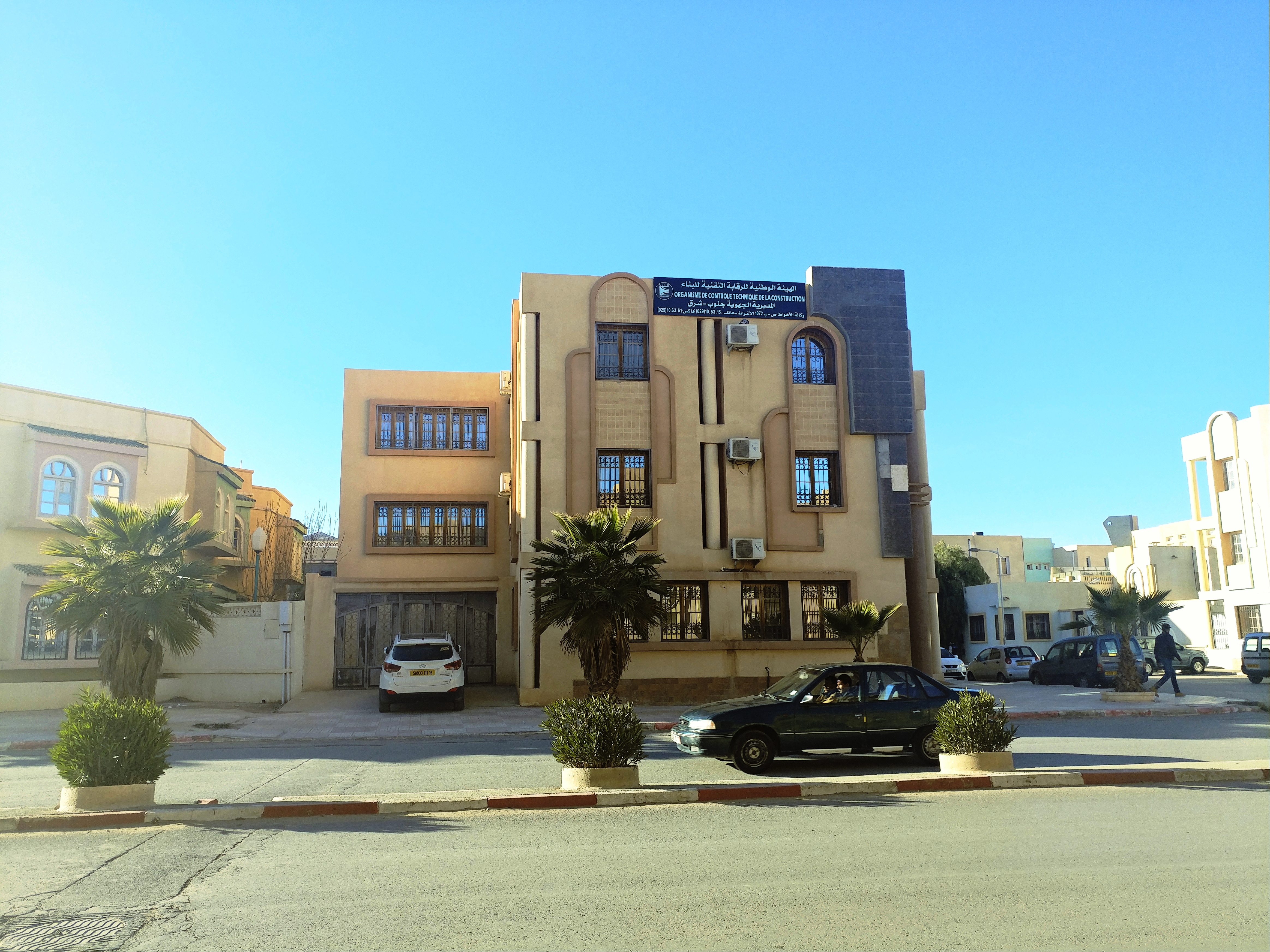 CTC LAGHOUAT